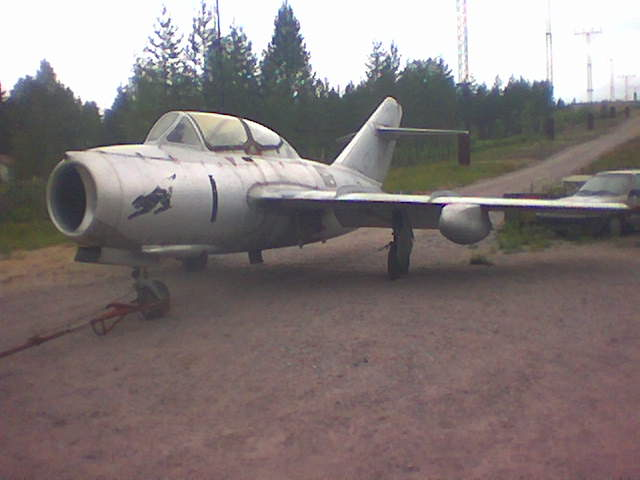 Former Finnish Air Force MiG-15 training aircraft. Photo taken in Hallinportti aviation museum on June 23, 2005